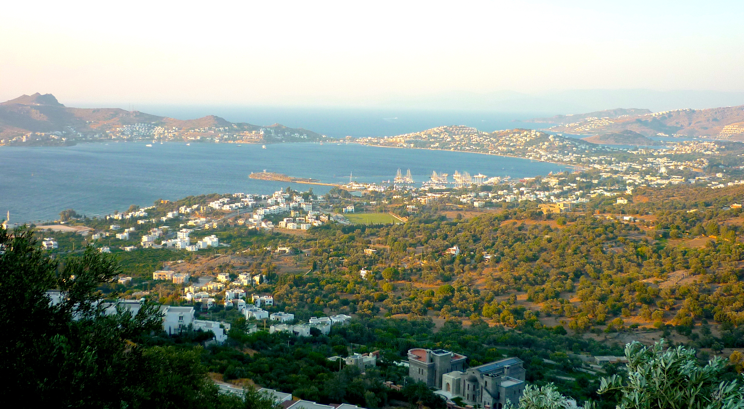 Yalıkavak bay, as seen from a hilltop to the south of the bay; taken late afternoon in early September 2011